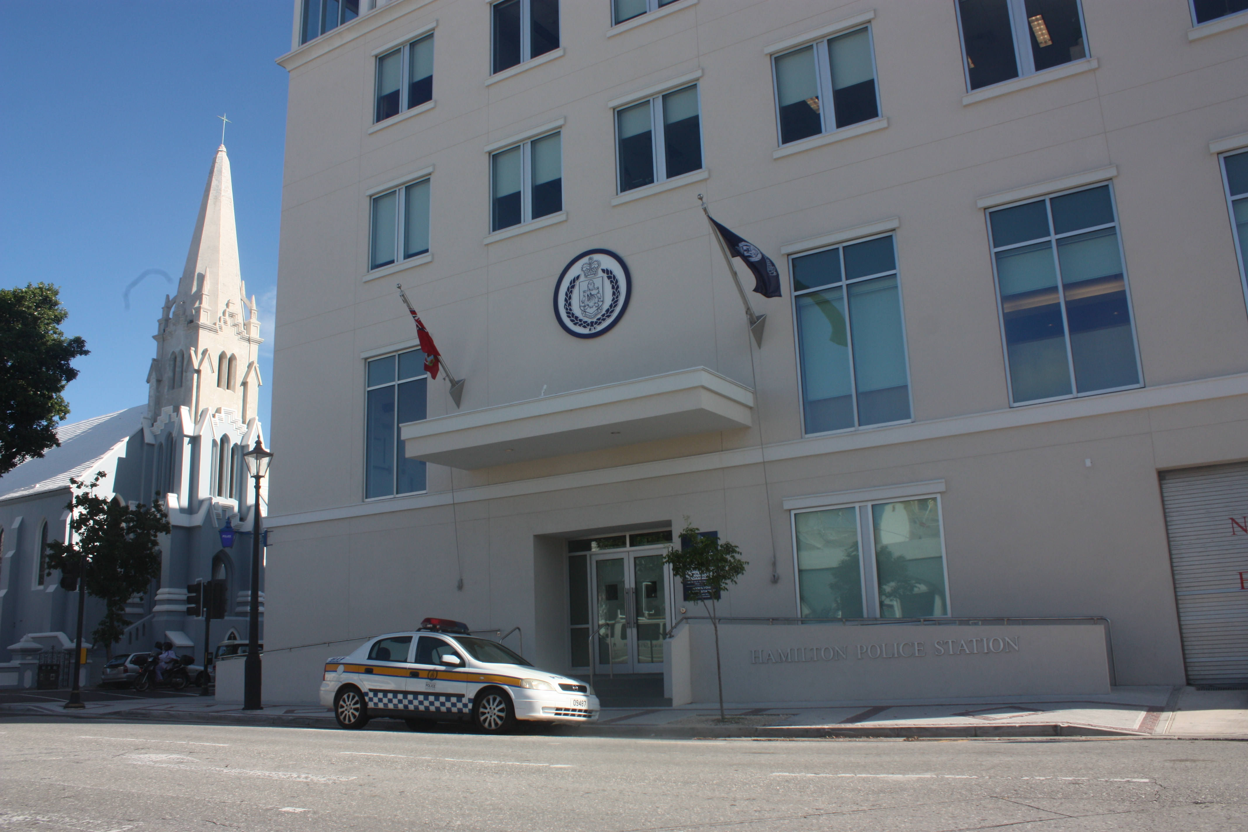 The new Hamilton Police Station of the Bermuda Police Service, on the corner of Court Street and Victoria Street, in the City of Hamilton, in Pembroke, Bermuda in September, 2011.